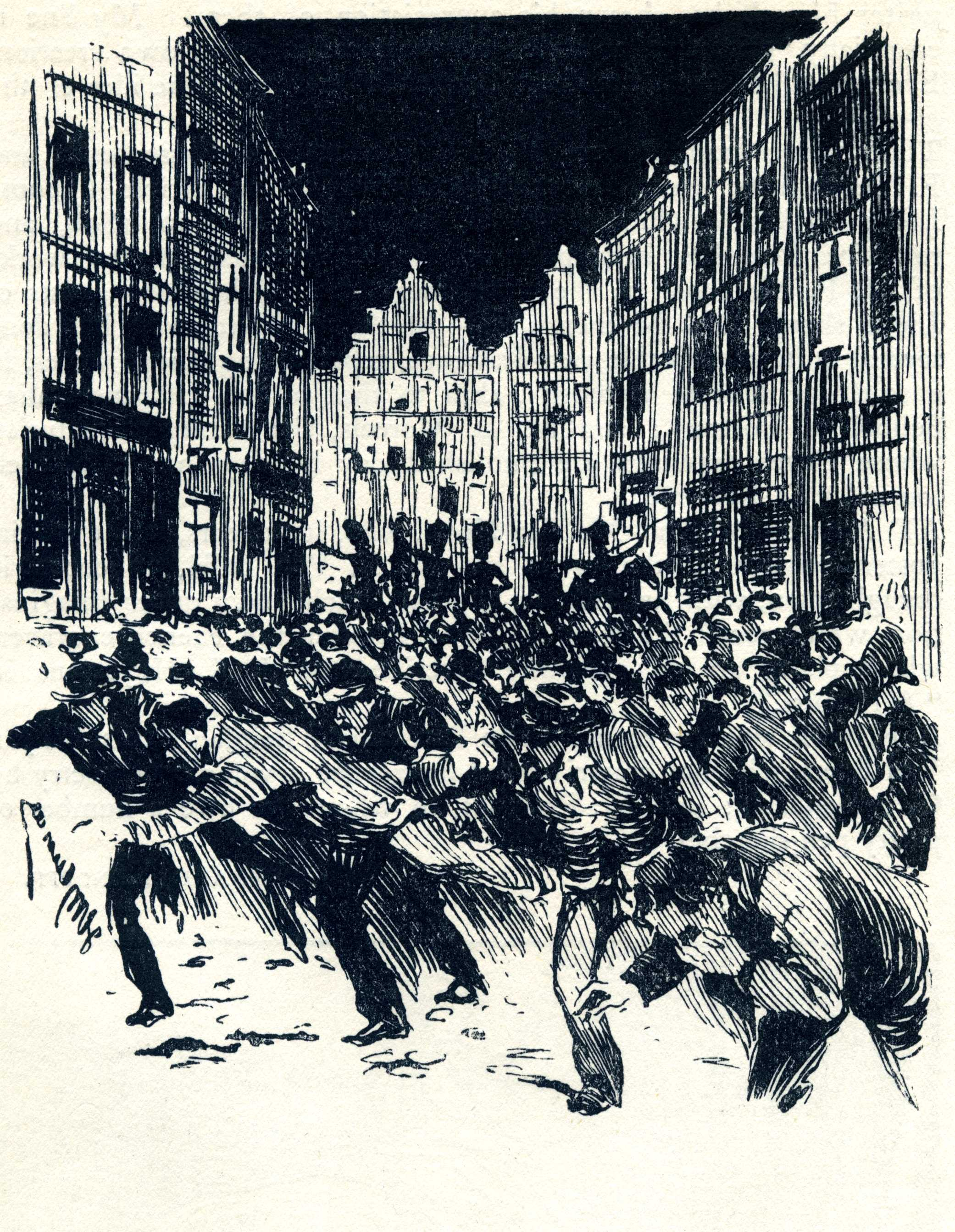 Belgian strikers are chased by cavalry in Brussels, probably during the 1902 general strike. By Henri Meunier.